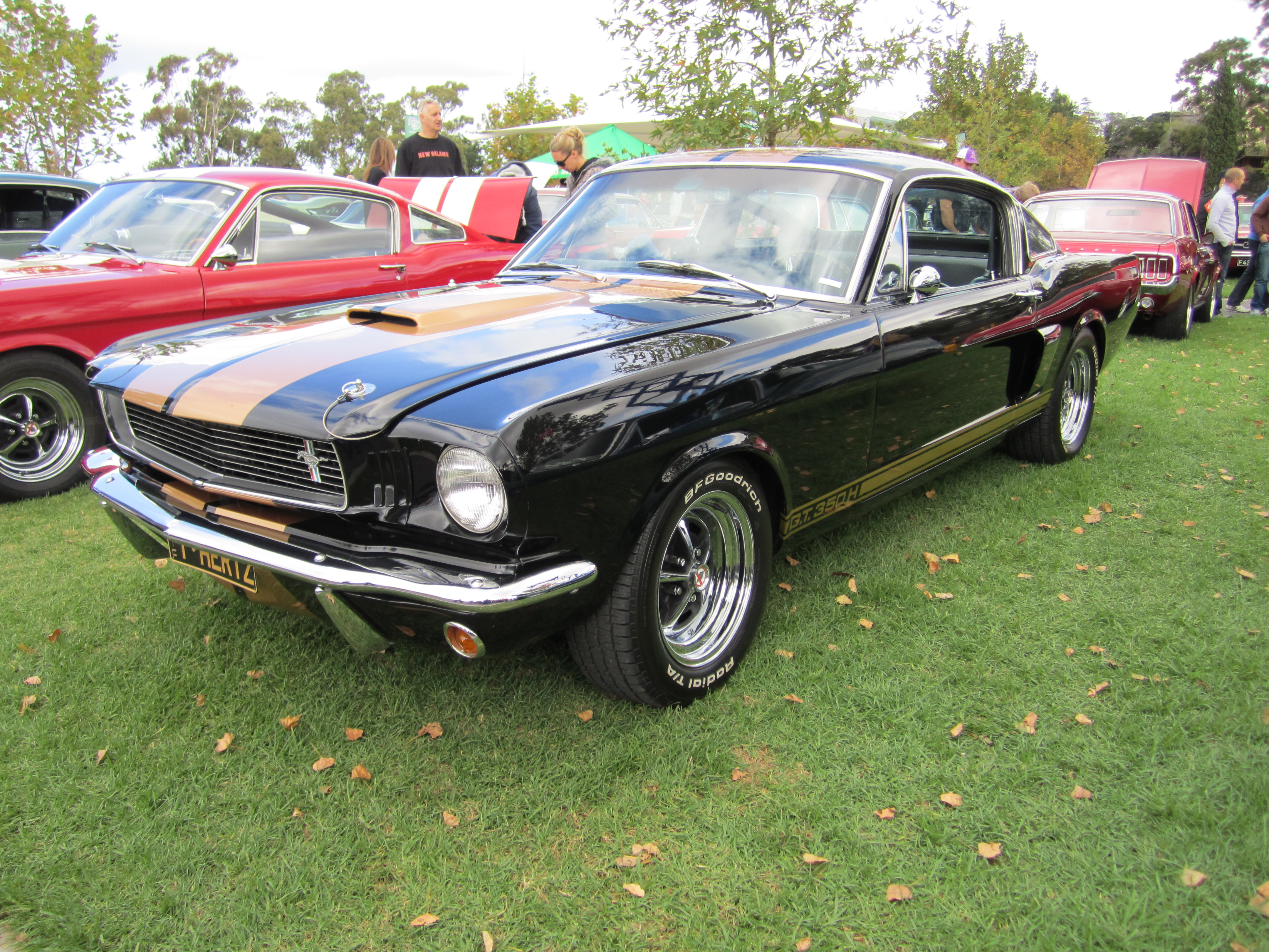 Raven Black. Fastback only. 1003 GT350Hs made- Shelby struck up a deal with Hertz to produce GT350s for rent. Engine; 306 bhp 289 V8